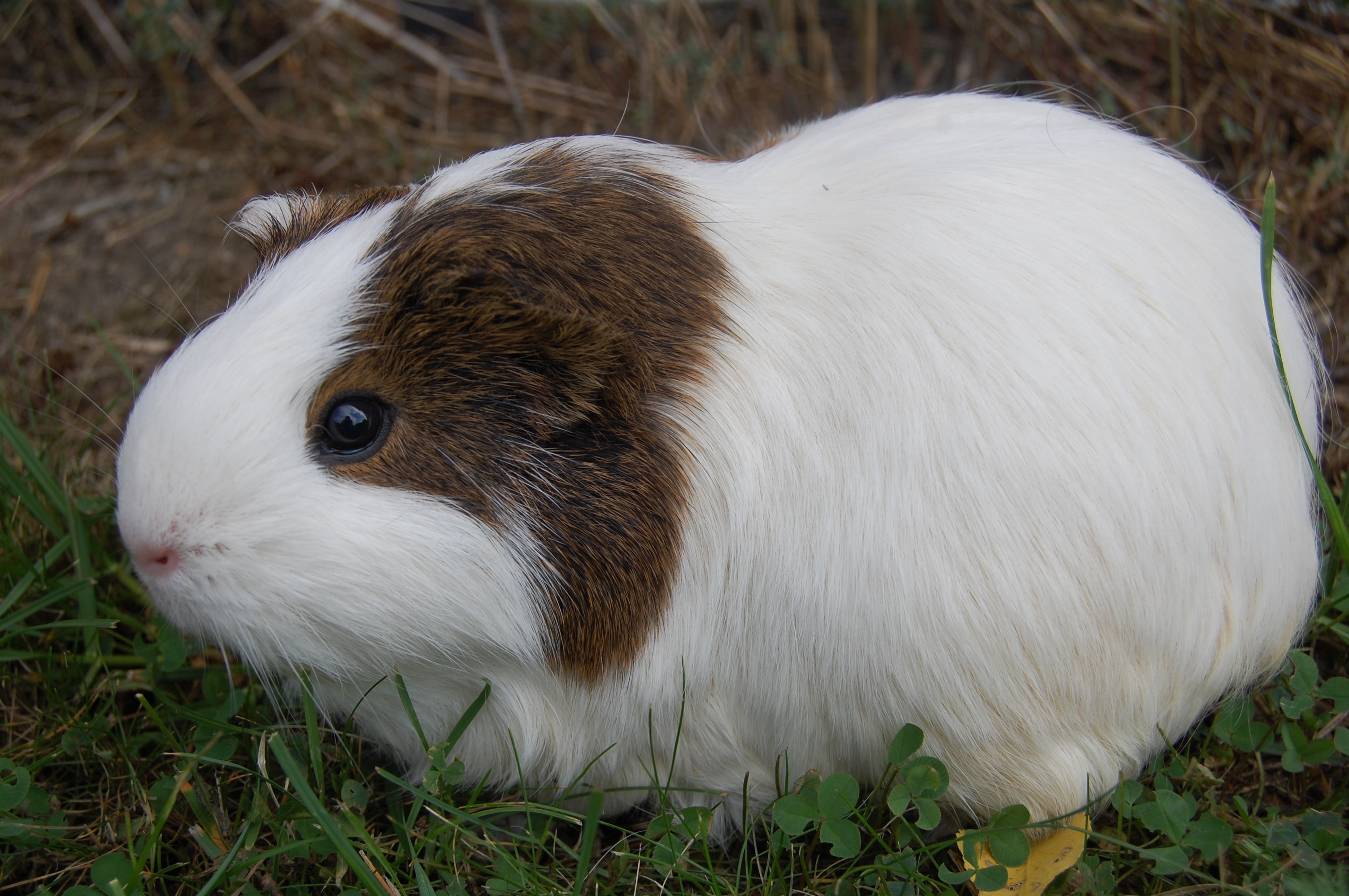 Norwegian guinea pig. Born in 2011.